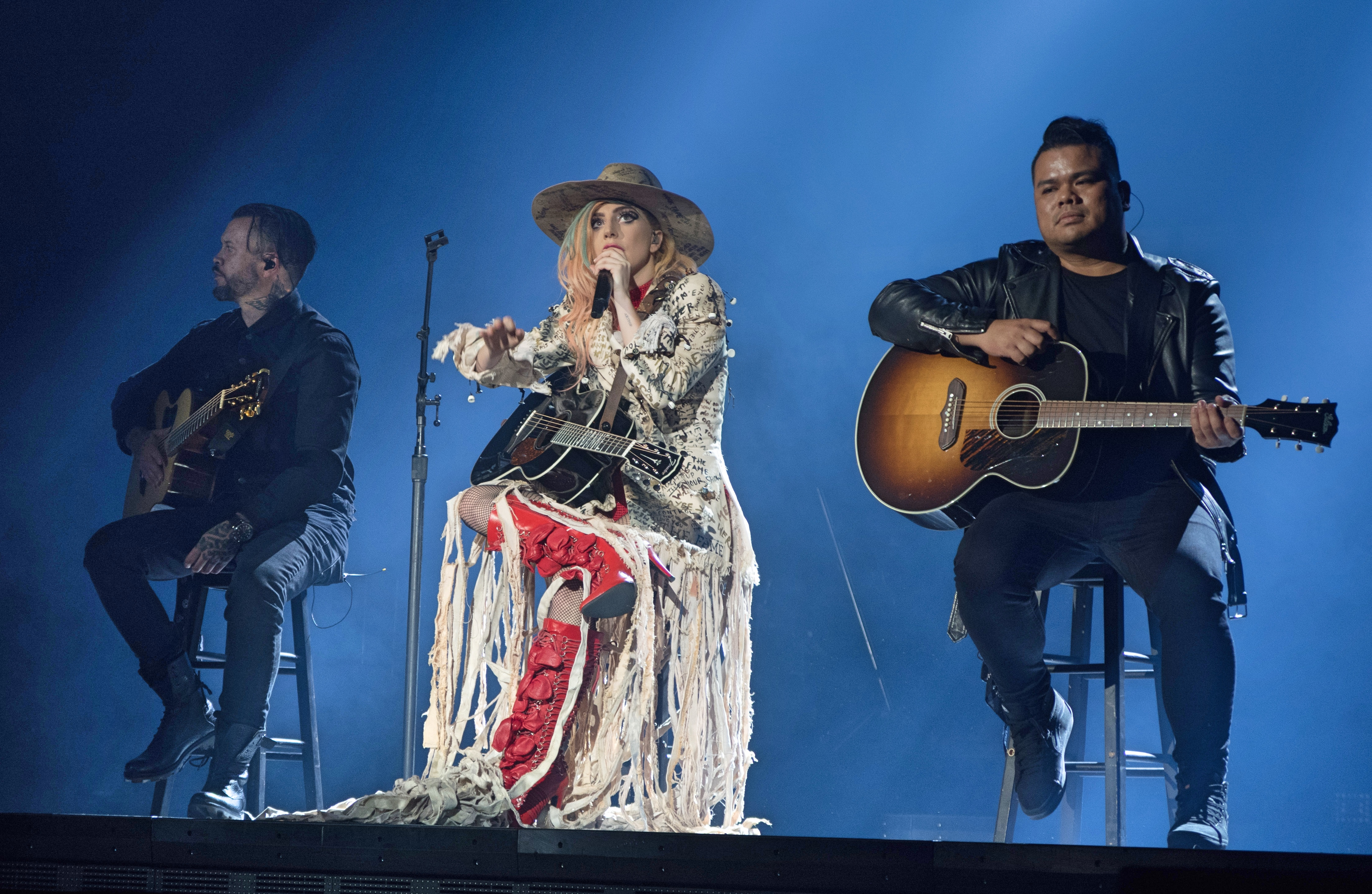 Lady Gaga performing "Joanne" on the Joanne World Tour